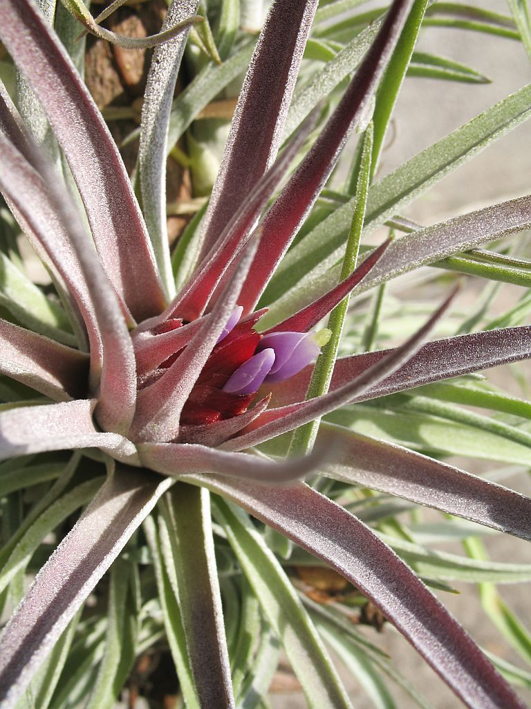 Tillandsia kammii in cultivation at the Botanical Garden of Heidelberg, Germany.